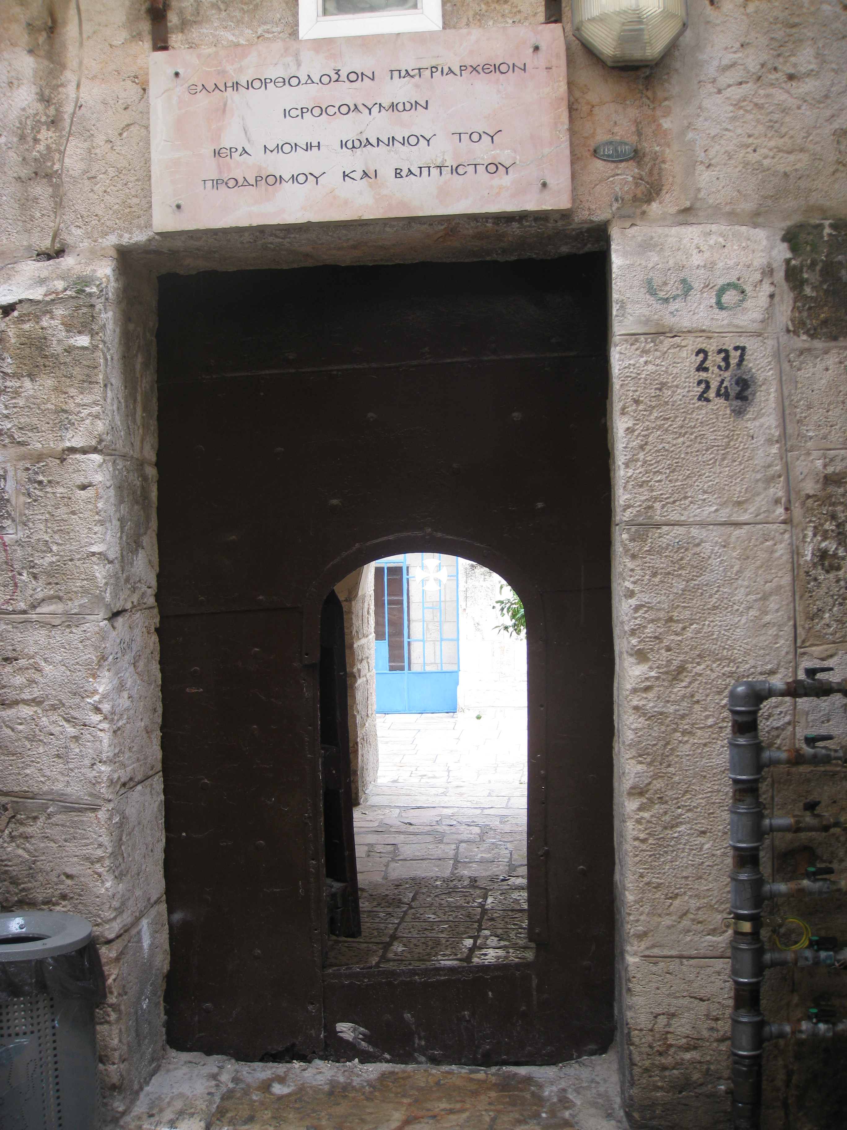 Old Jerusalem, 113 Christian Quarter Road, entrance to Church of John the Baptist.